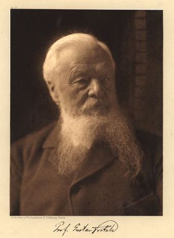 Gustav Fritsch